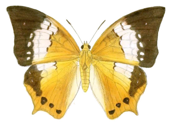 Haridra hipponax